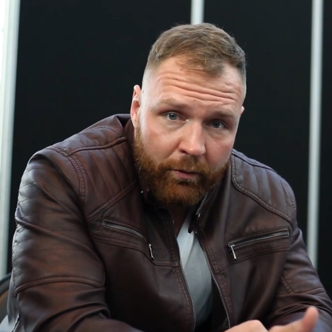 Jon Moxely on his first match after WWE dante luna filmmaker/photographer instagram @dantemoon